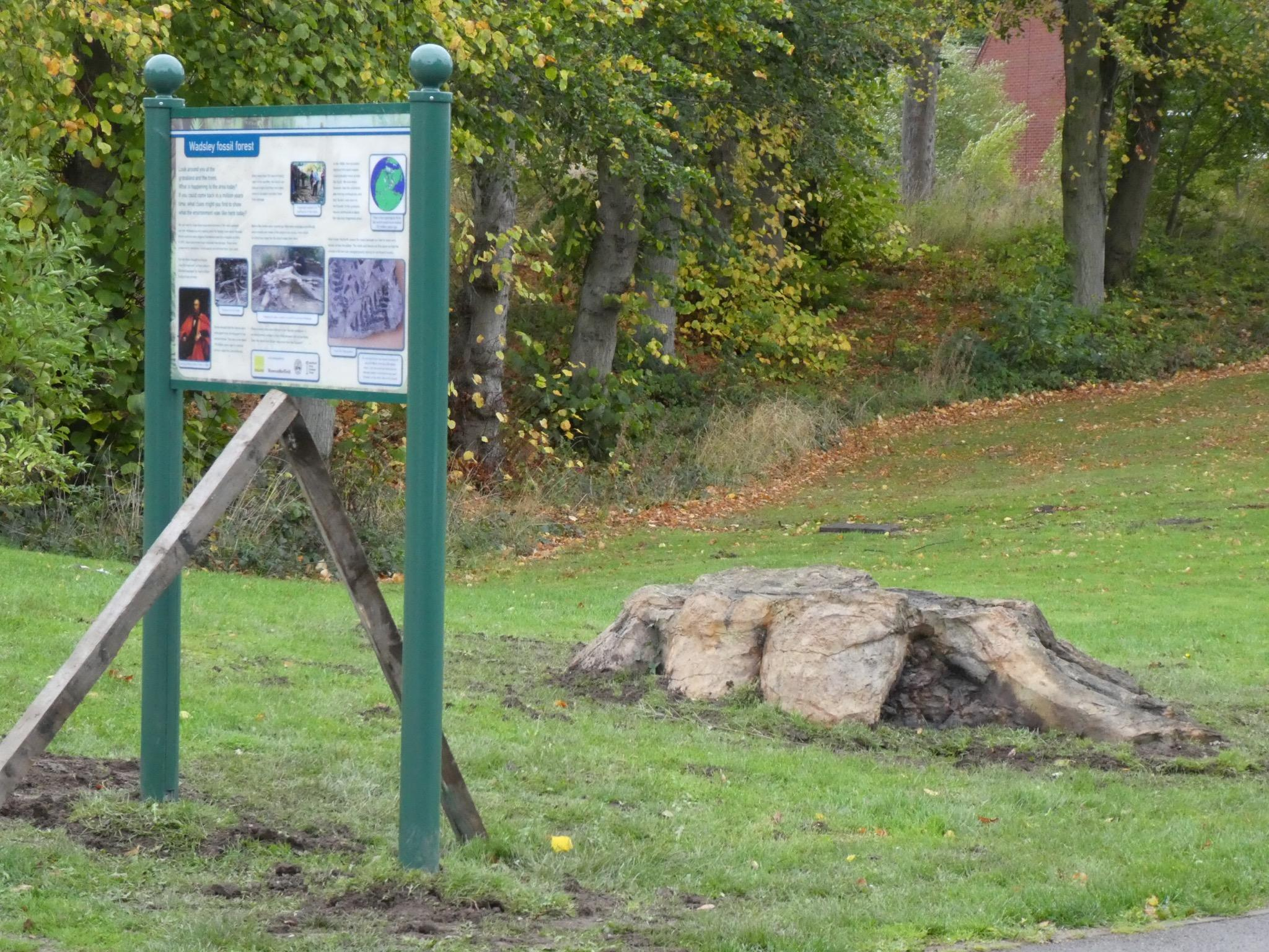 Wadsley Fossil Forest Interpretation Board and replica cast stump, Middlewood Drive, Wadsley Park Village